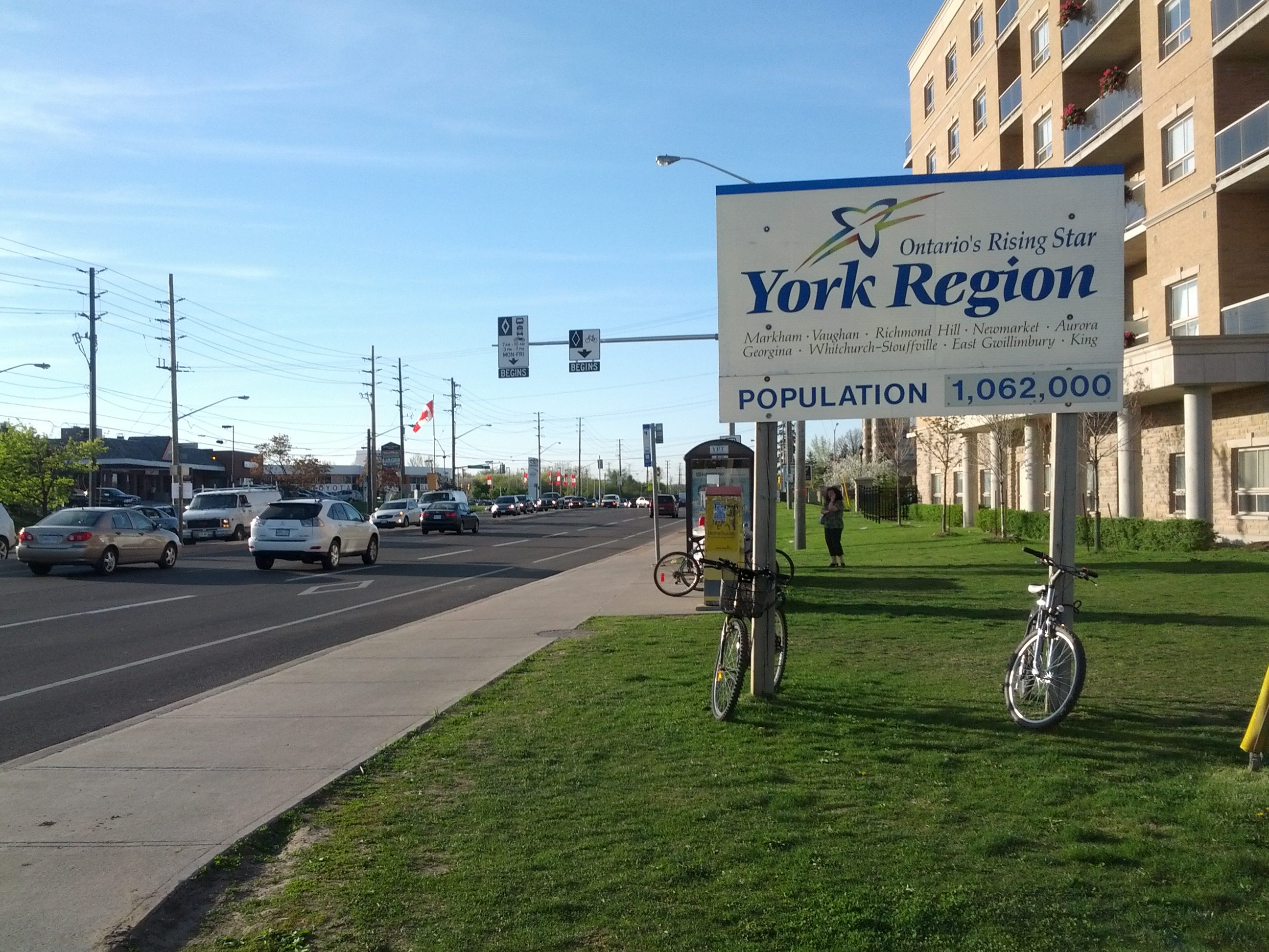 York Region Sign.